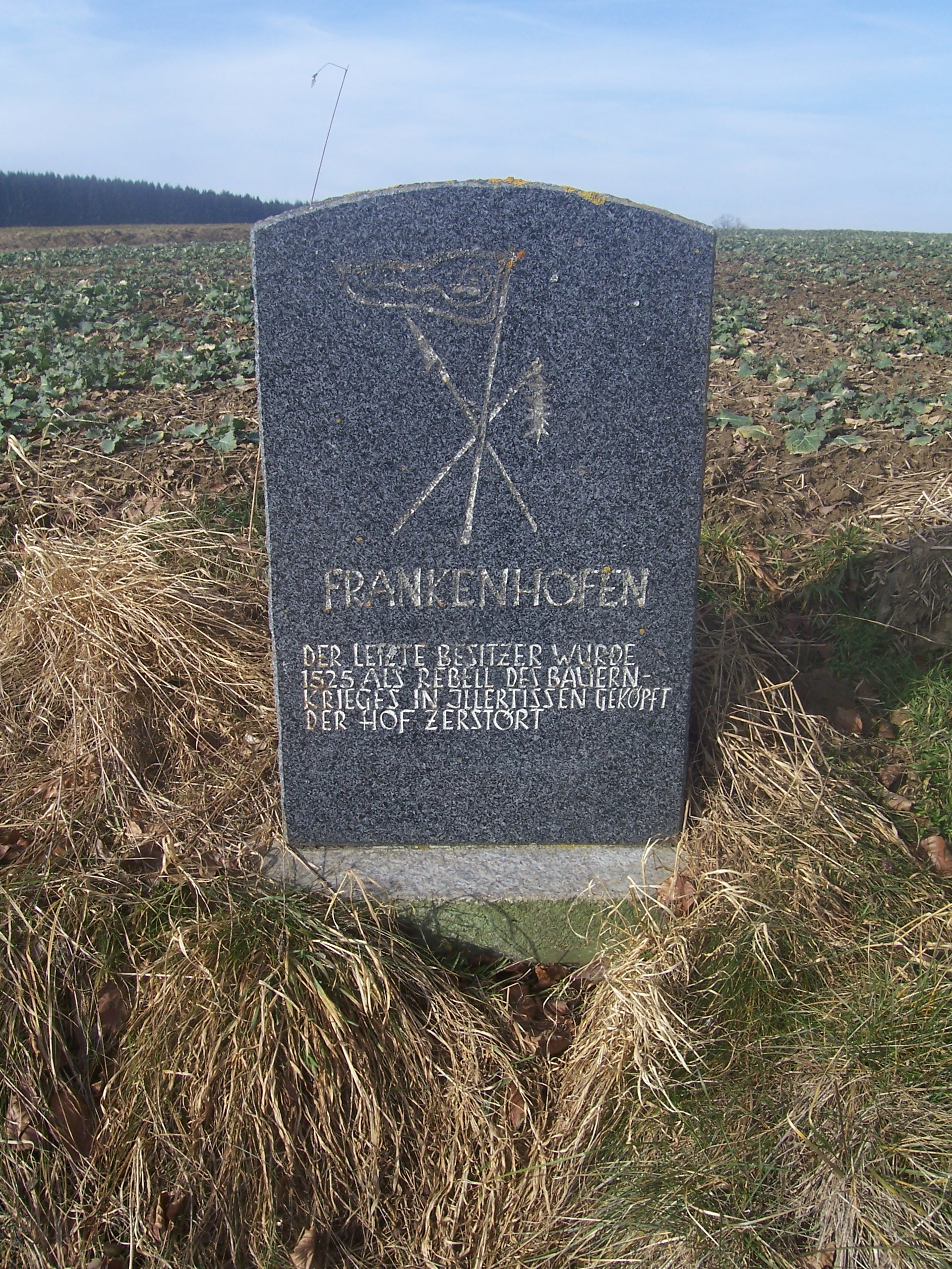 Gedenkstein Frankenhofen